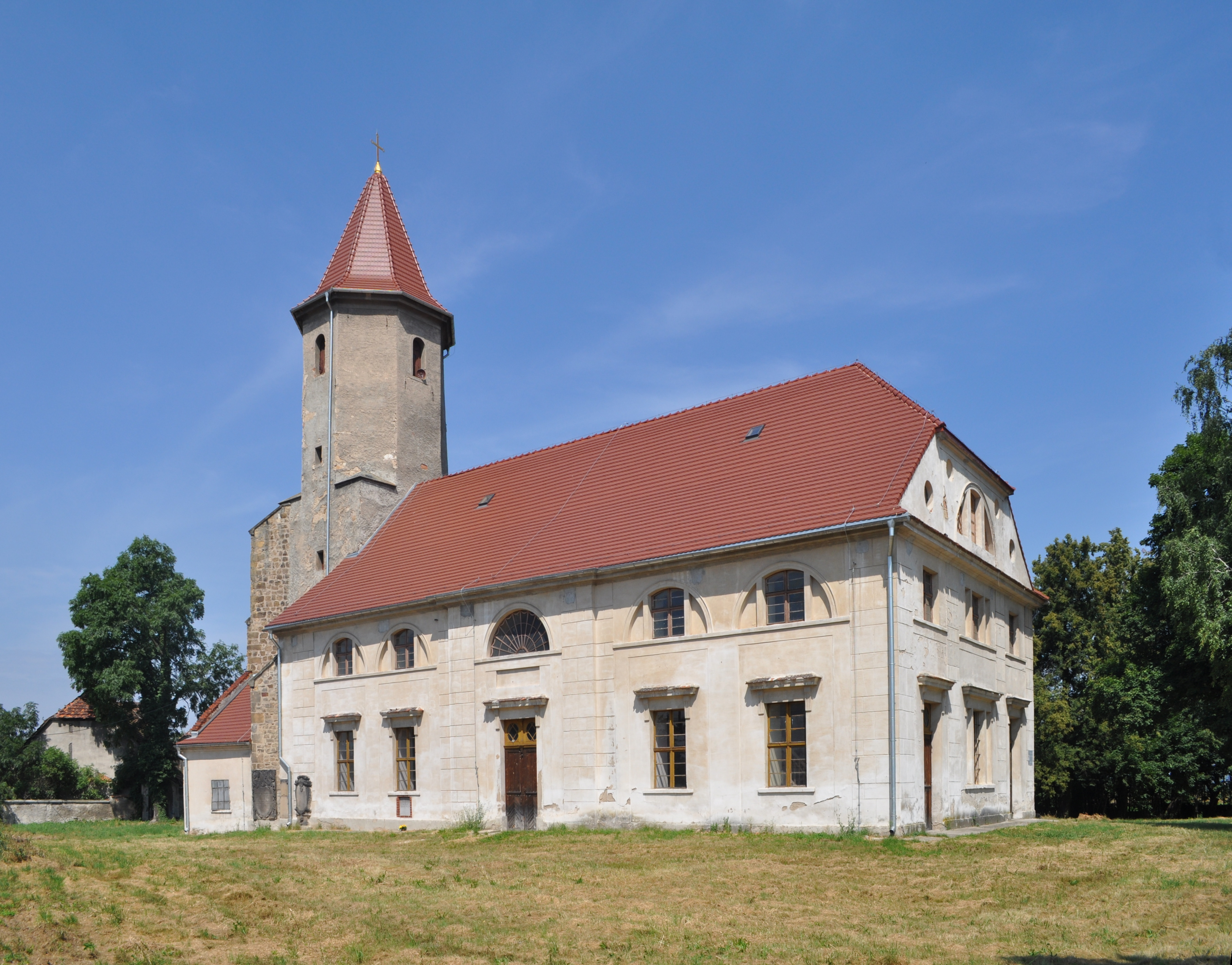 Church in Studnia